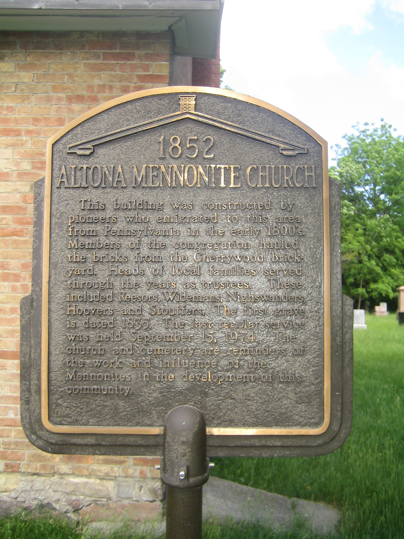 This plaque is located in front of the Altona Mennonite Church in Altona, Ontario.